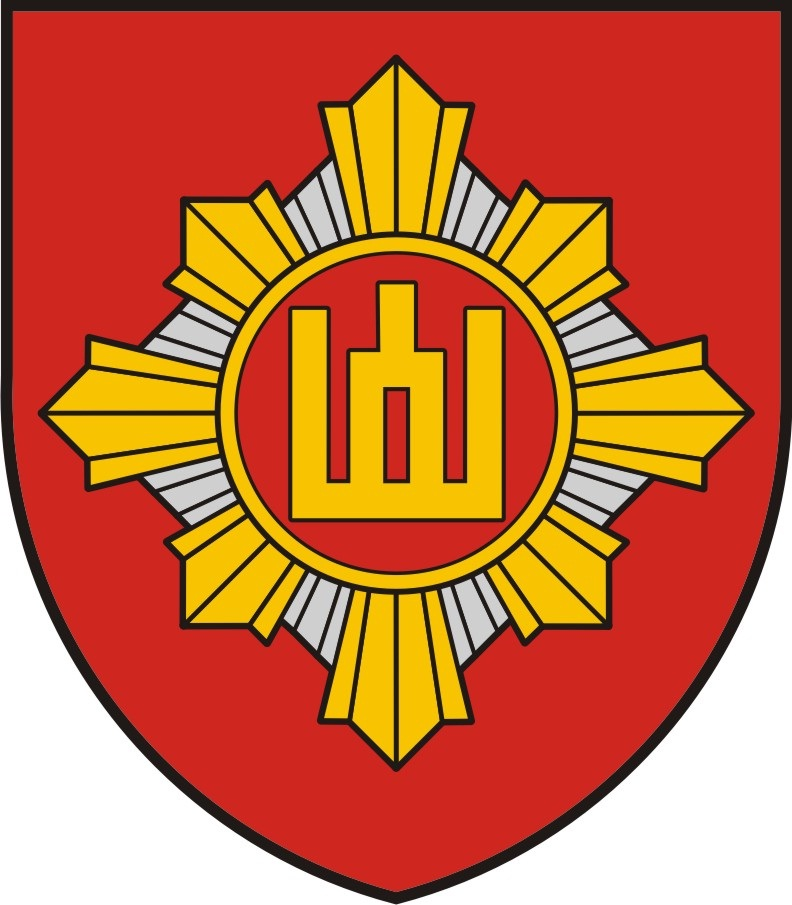 Insignia of the Military Police (Lithuania).